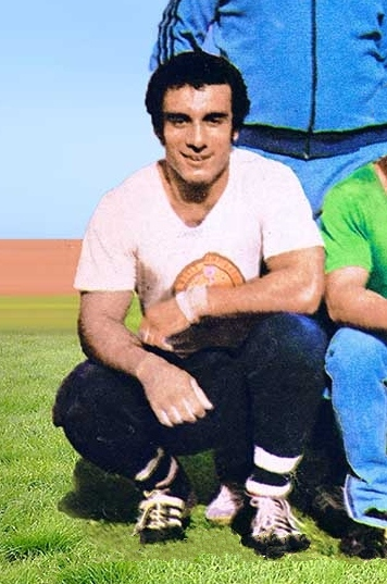 Iranian Weightlifting Team heading to the Soviet Union. Mehdi Attar-Ashrafi